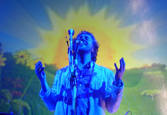 Wayne Coyne of The Flaming Lips, performing In the Morning of the Magicians at Sydney's Enmore Theatre